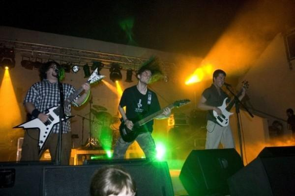 Phantom Pain performing live at Hellelujah Open Air Festival 2009, April 24th, Hertzeliya, Israel